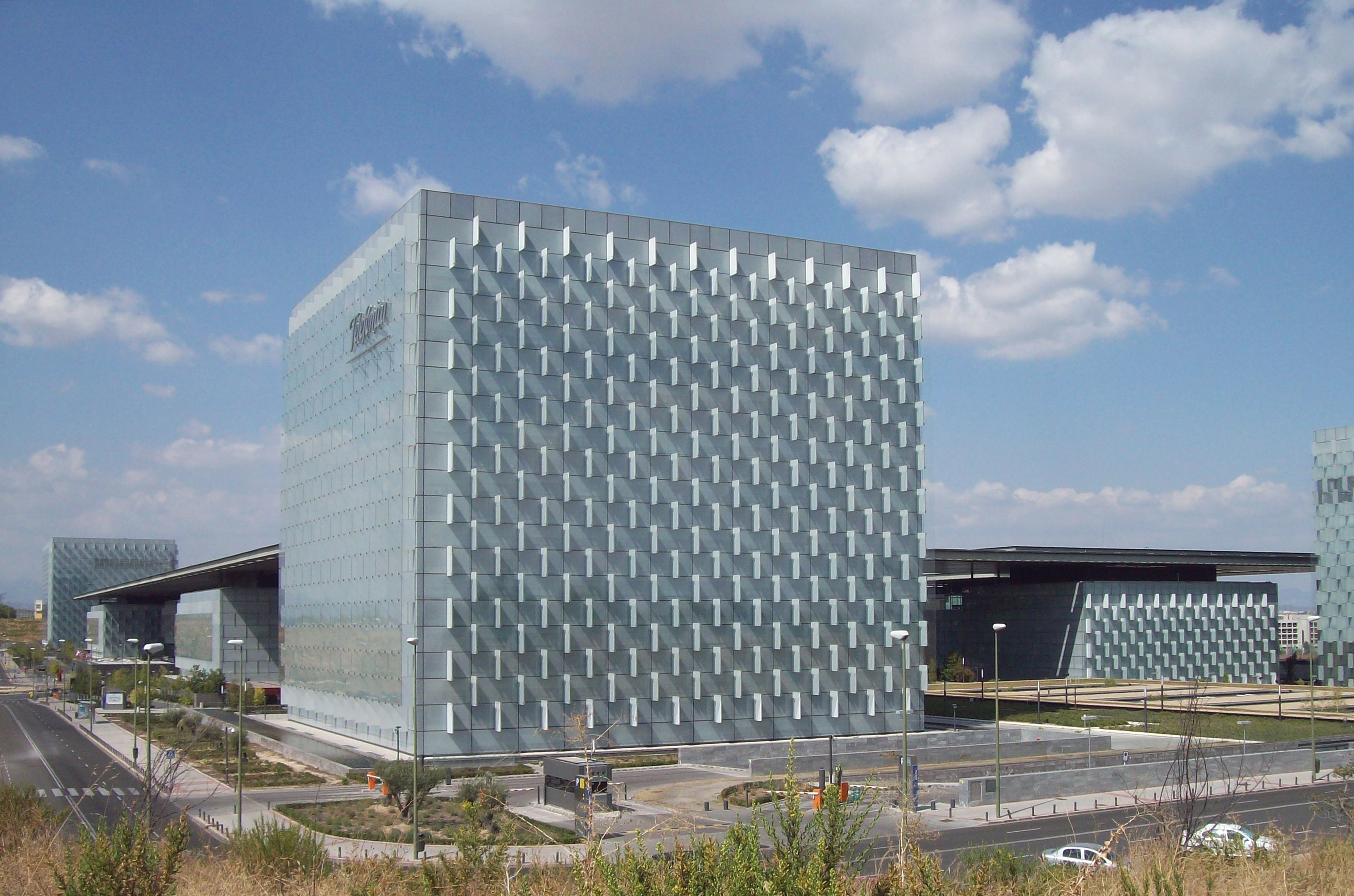 Partial view of Distrito Telefónica in Madrid (Spain).